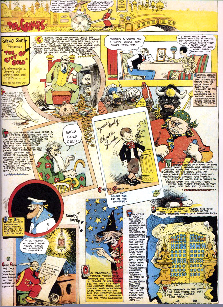 Copy of the cartoon strip The Gumps from 1926. A search was done for copyright renewal in both artwork and publications for Chicago Tribune, Gumps and Sidney Smith for the years 1953 and 1954. There were no listings for any of these keywords; there's no evidence that copyright continues to be claimed on this.